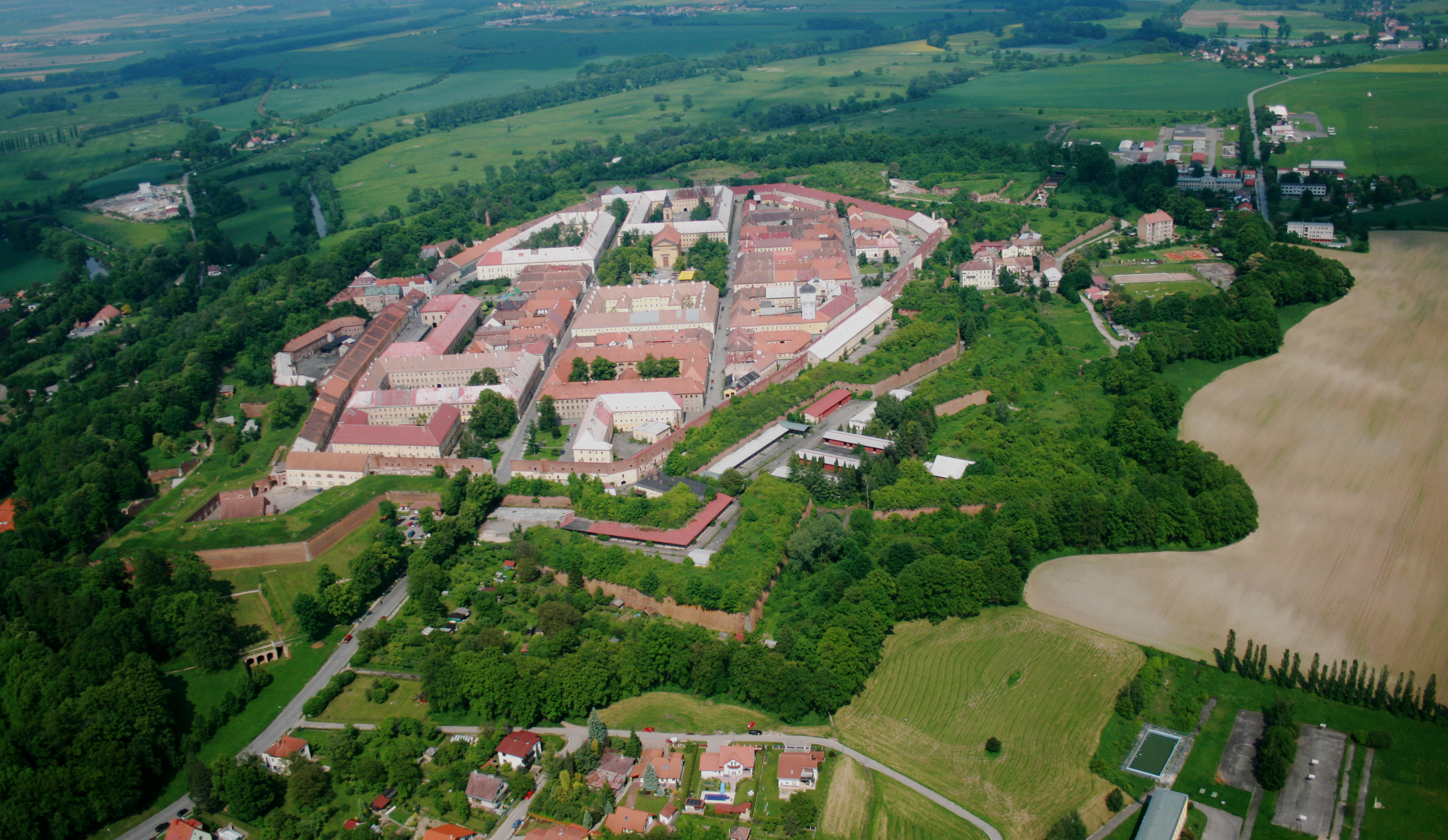 Fortress Josefov near of Jaroměř from air, eastern Bohemia, Czech Republic